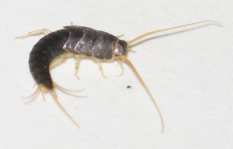 Lepisma saccharina (white background)